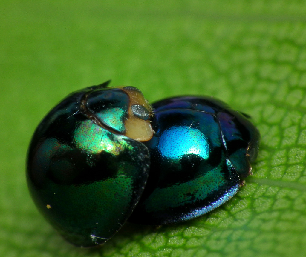 A couple of Steelblue Ladybirds (Halmus chalybeus) mating in Brisbane, Queensland, Australia